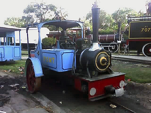 Engine of Patiala Monorail